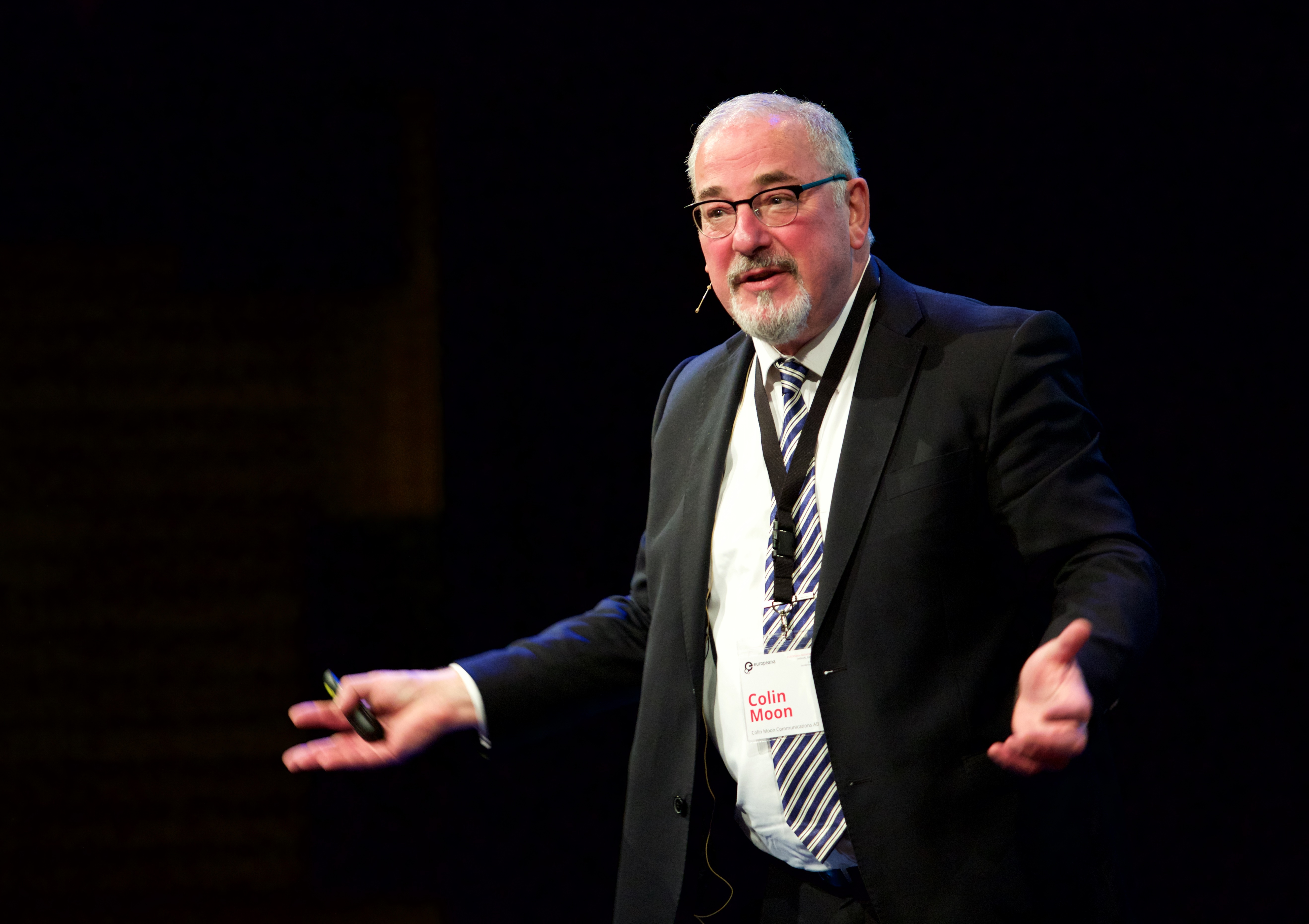 The Europeana Network Association Annual General Meeting (AGM) is an annual key event for Europeana and its network. It provides the opportunity for Europeana and its partners for all to share, discuss and develop specific areas of mutual interest. The 2015 edition of this event took place on 3 and 4 November 2015 in Amsterdam, the Netherlands. During the AGM delegates reflected on the work accomplished in 2015 and looked ahead to the challenges and opportunities for the coming years.